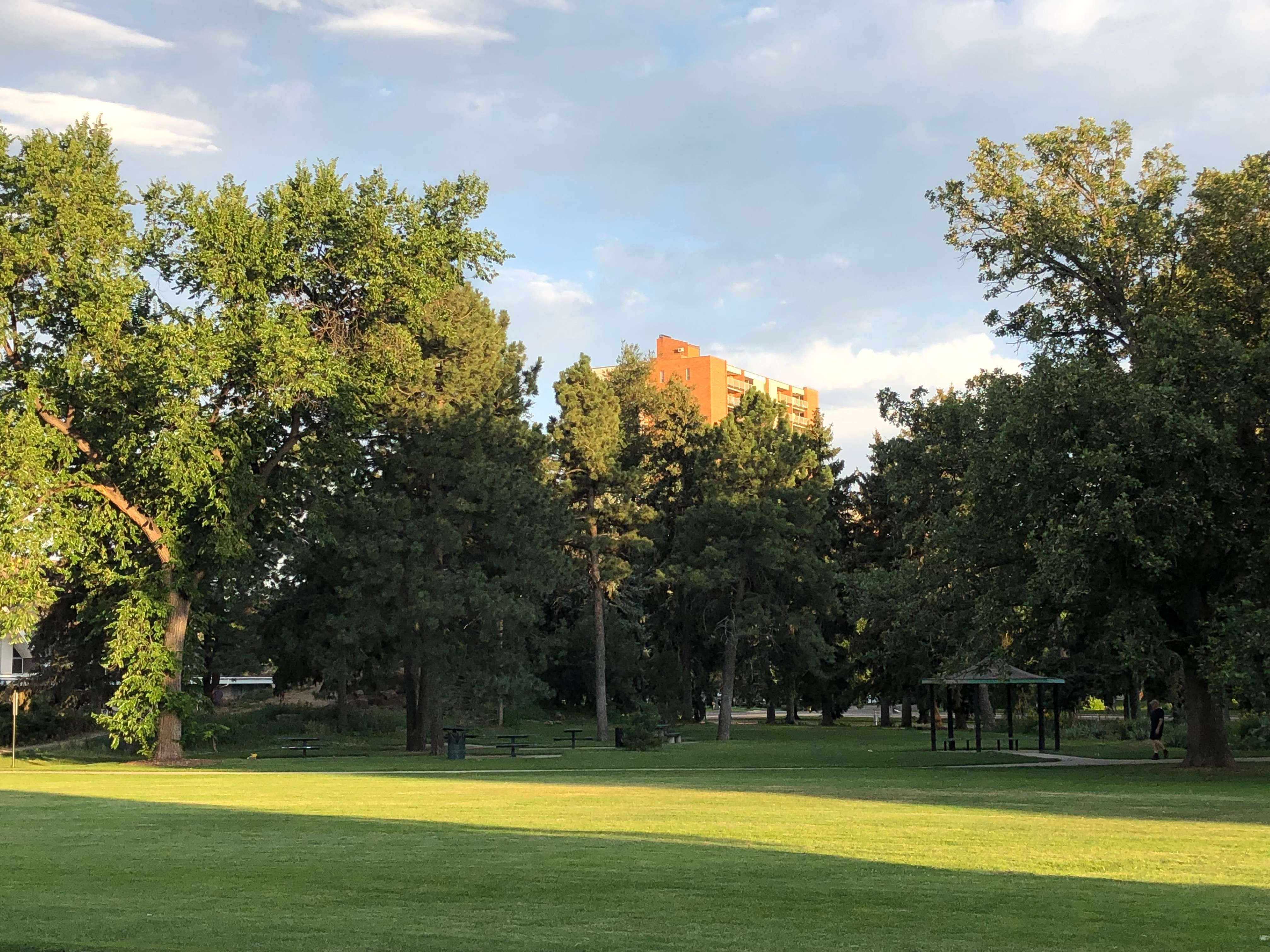 A photo of Lindsley Park in the Hale Neighborhood of Denver